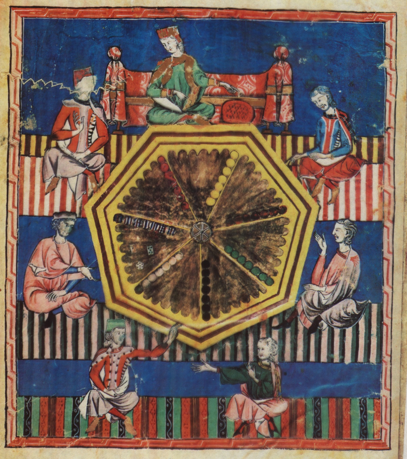 Folio 97 verso of the Libro de los juegos by Alfonso X, depicting the game of astronomical tables.